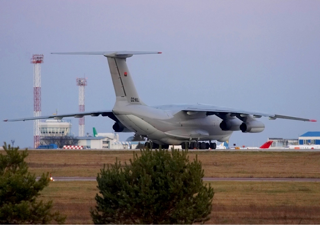 Angolan Air Force Ilyushin Il-76TD